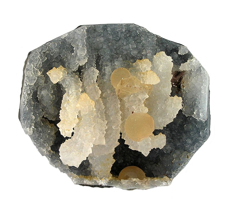 Calcite, Fluorite, Quartz Locality: Mahodari, Nasik District, Maharashtra, India (Locality at ) Size: cabinet, 9.9 x 9.8 x 4.3 cm Fluorite and Calcite on Quartz stalactites, in geode This superb specimen consists of three Fluorite spheres (to 1.3 cm) and a 2-cm scalenohedron of Calcite, all perched on literally ropelike stalactites of translucent quartz crystals. Many of the quartz crystals actually comprise very attractive and visually delicate stalactites within the Chalcedony/basalt vug.